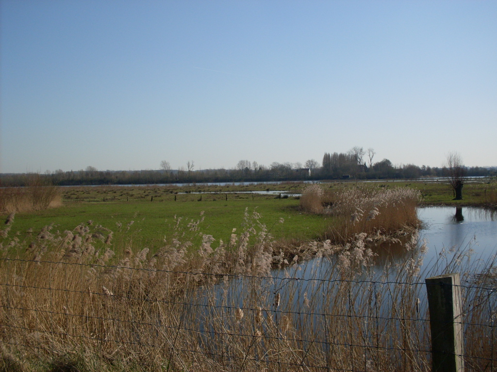 Drowned Meadow in Ypres.